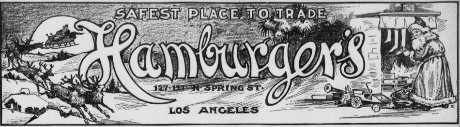 Part of a Christmas advert for Hamburger's Department Store, Los Angeles, 1905. :en:List_of_defunct_department_stores_of_the_United_States#California